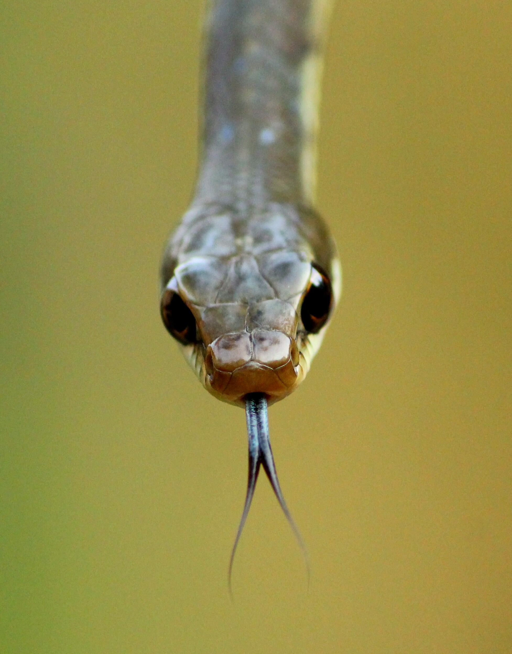 Bronzeback tree snake tasting the air